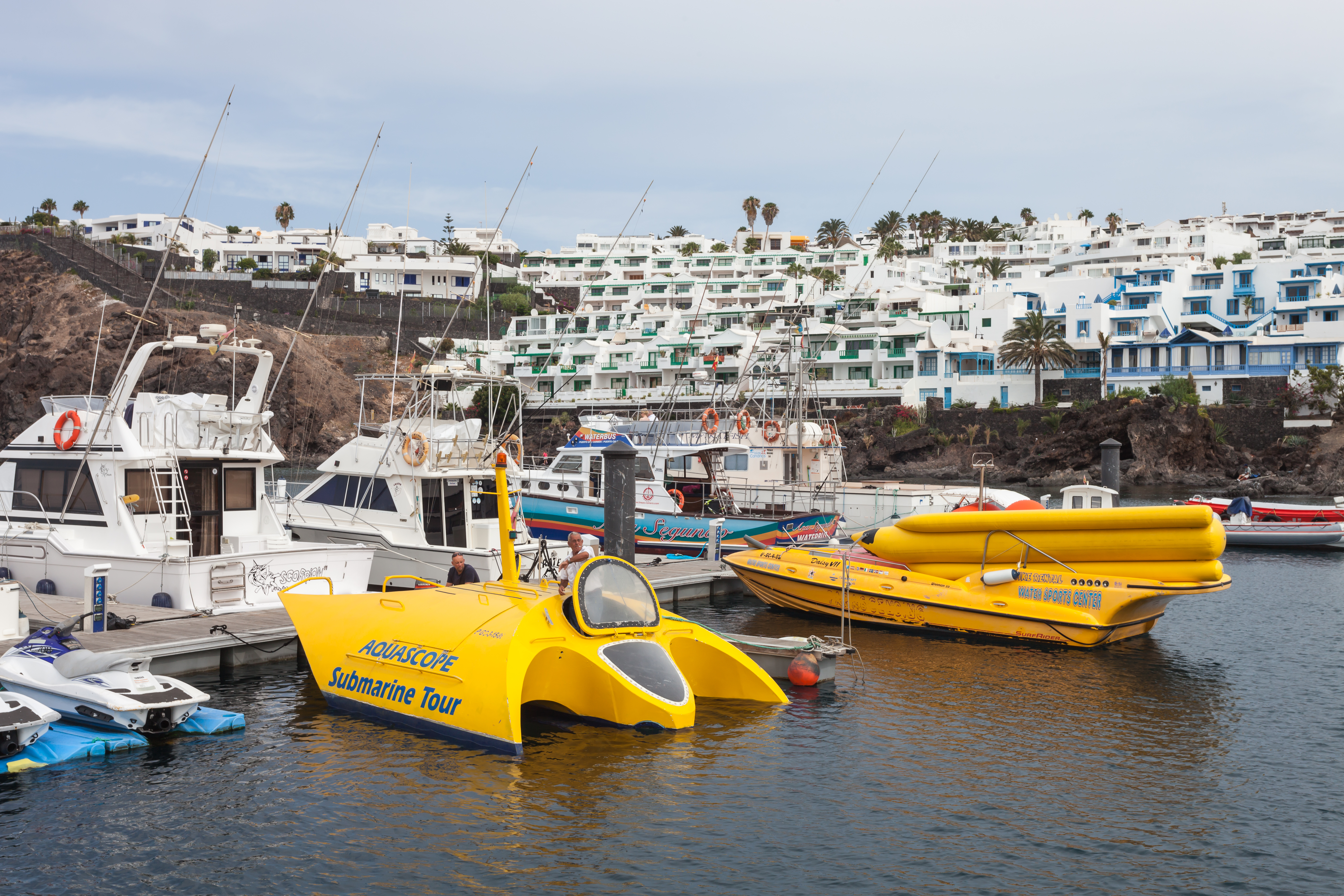 Boats for tourists: Aquascope submarine tour... Port of Puerto del Carmen, Tías, Lanzarote, Spain